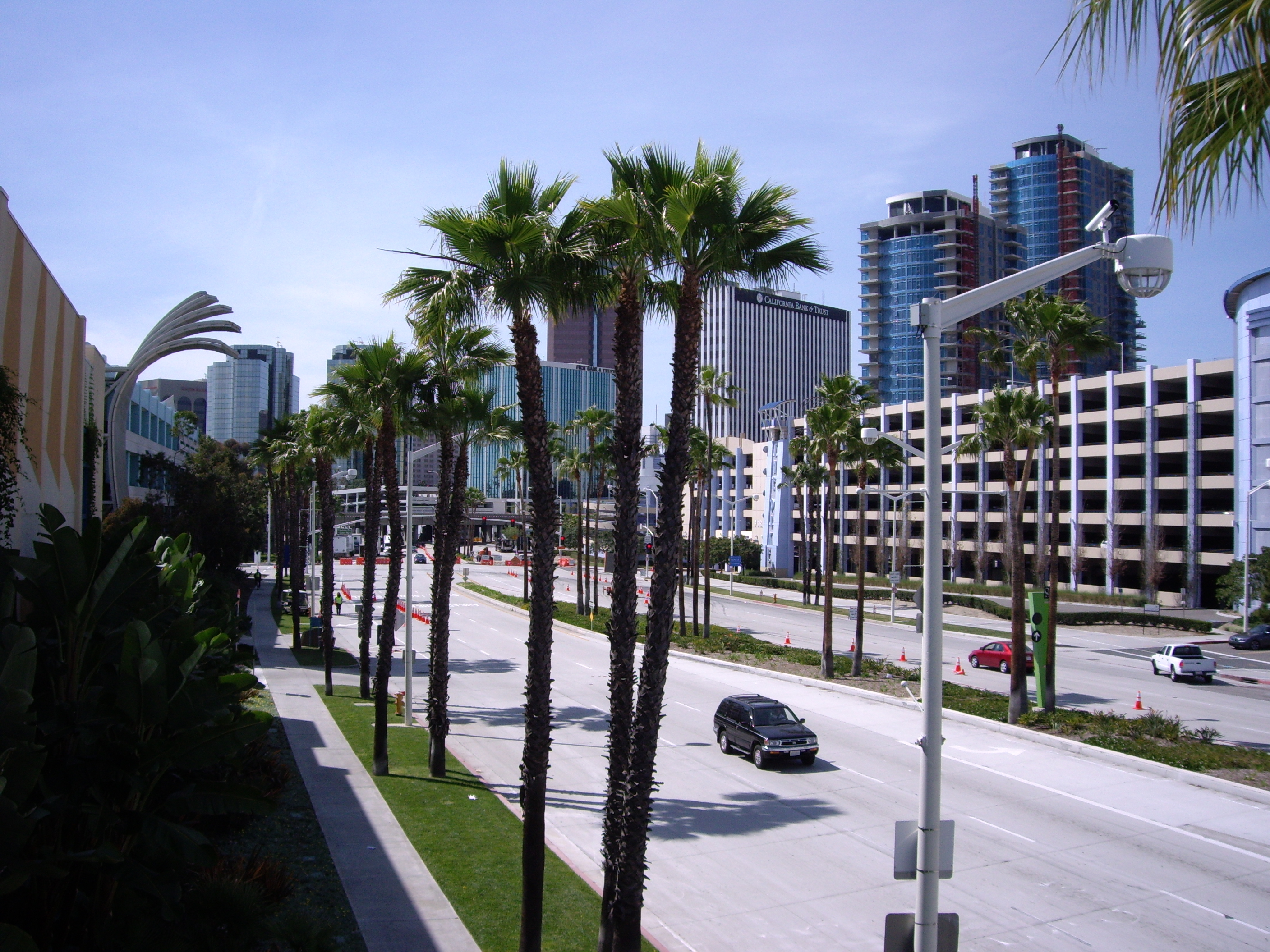 I authorize Wikipedia to use my work.